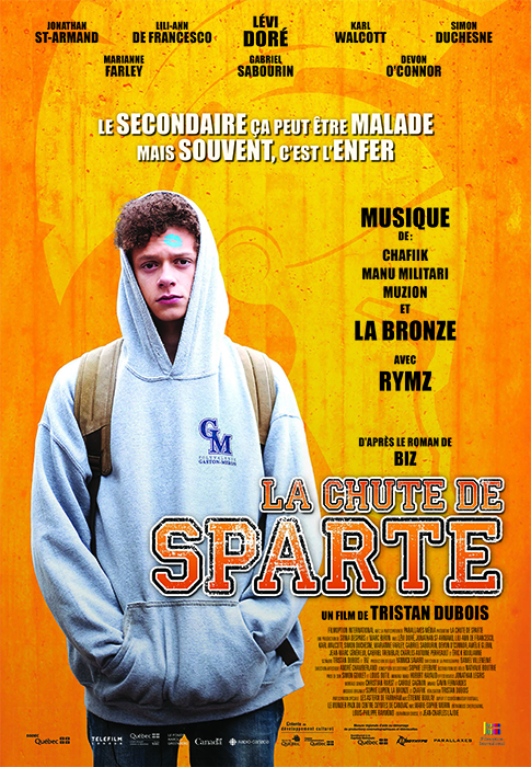 Poster of the movie The Fall of Sparta (Q55907607)